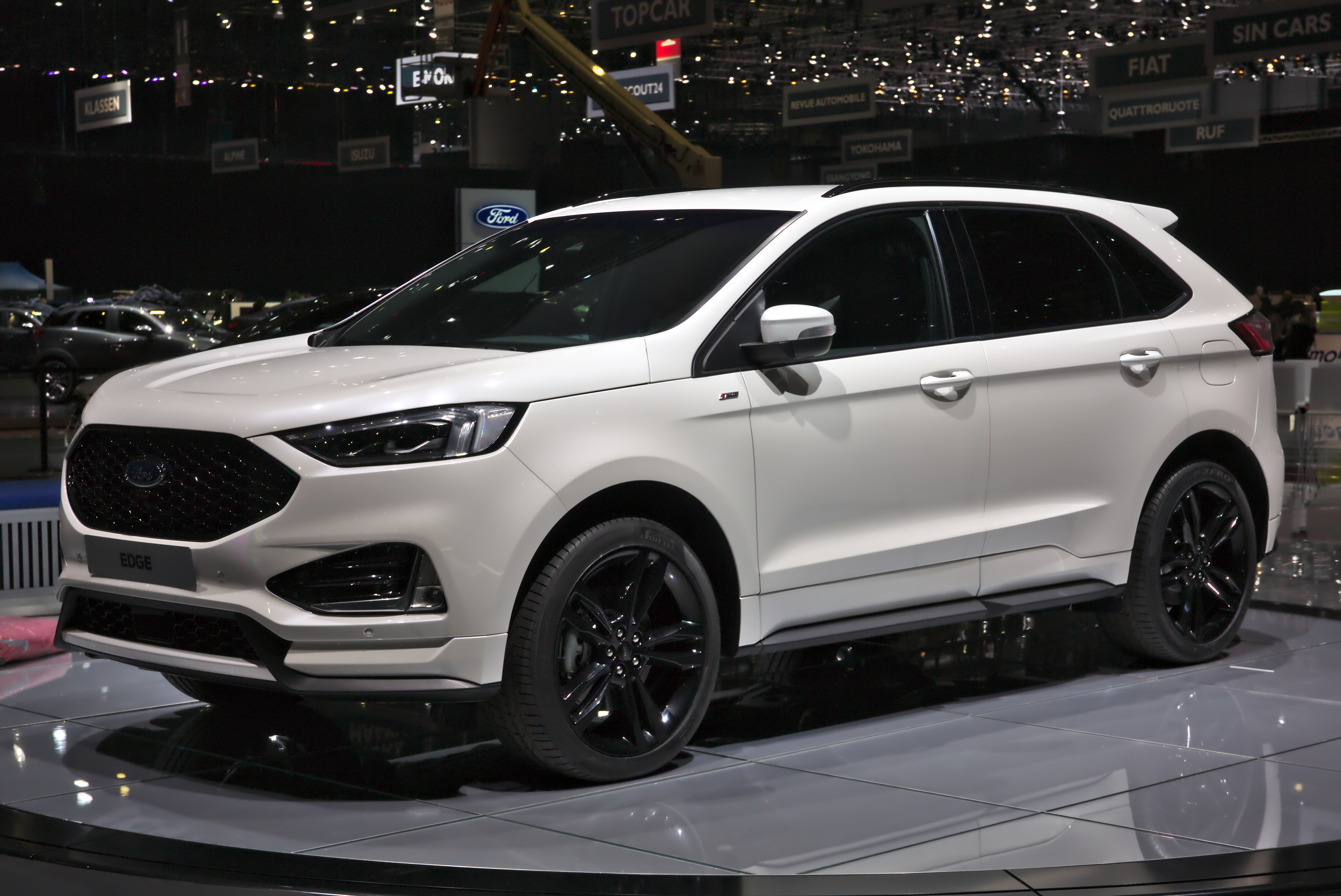 Ford Edge at Geneva Motor Show 2018